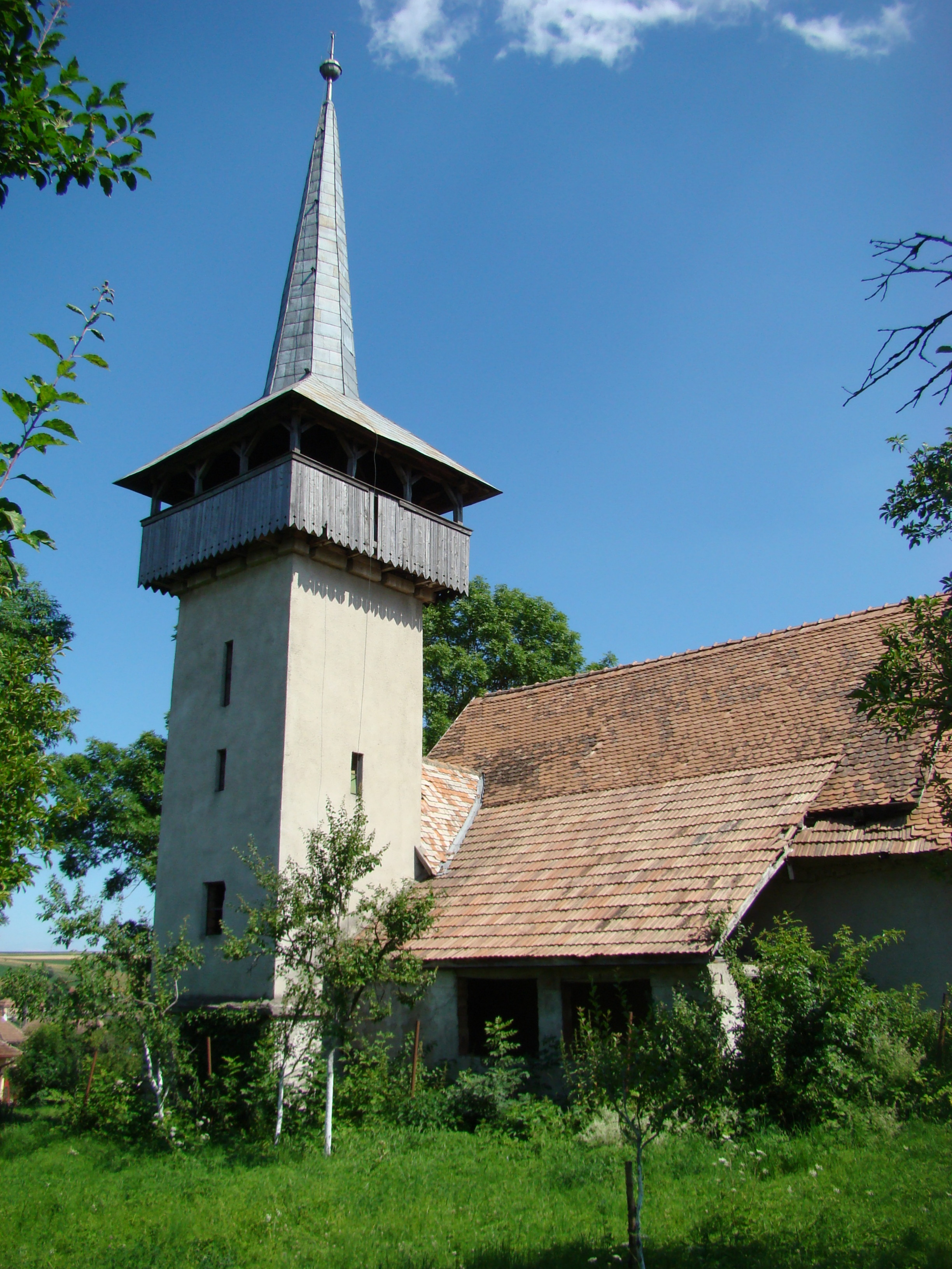 Reformed church in Tureni, Cluj county, Romania